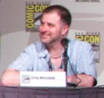 Animator Greg Weisman at Comic Con 2007. This file has been extracted from another file: Spectacular Spider-Man series crew.jpg